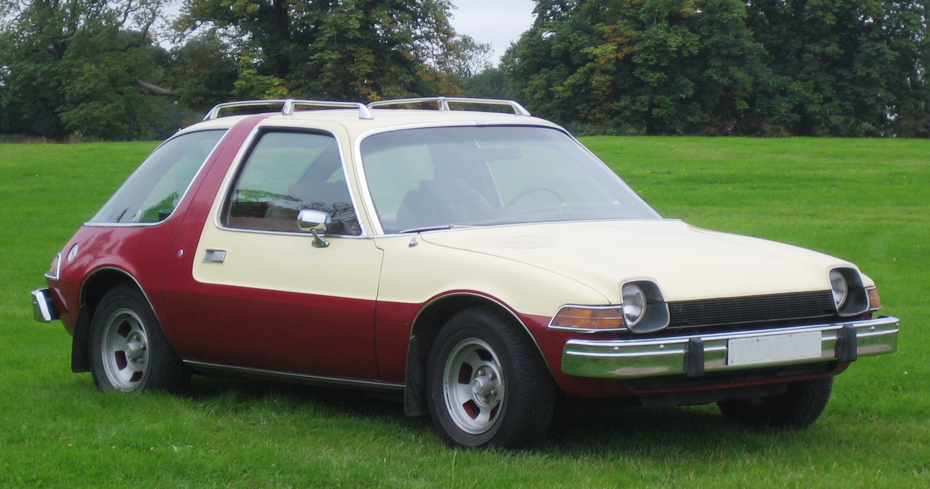 An AMC Pacer that made it to England.